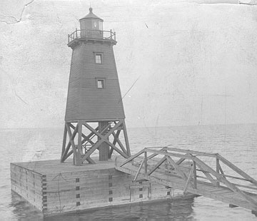 Alpena lighthouse